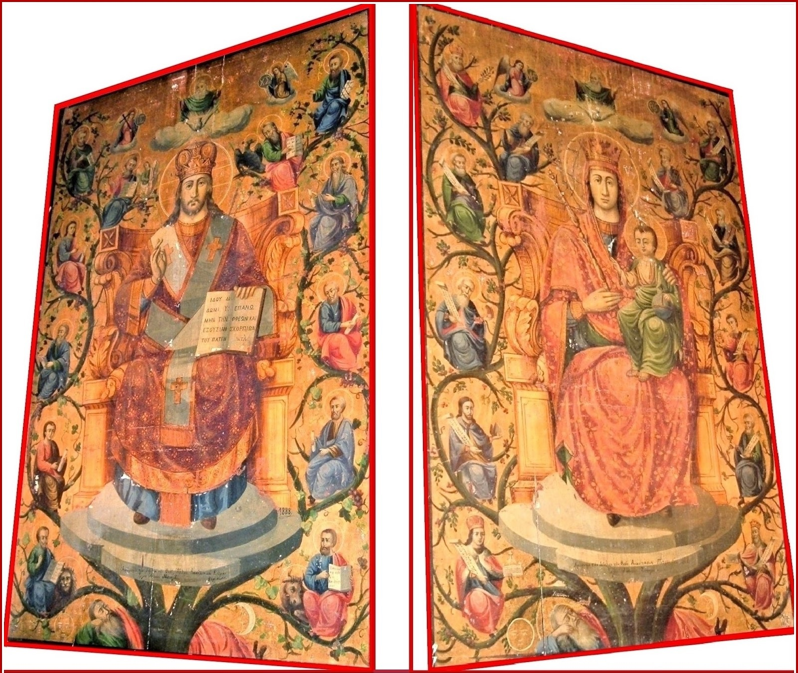 Χριστός η Άμπελος & Η Ρίζα του Ιεσσαί Oxya